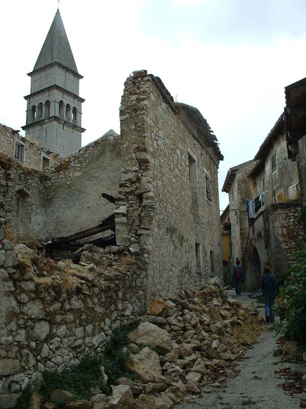 Pićan, Istra, Croatia: Ruins after 60 years of communism